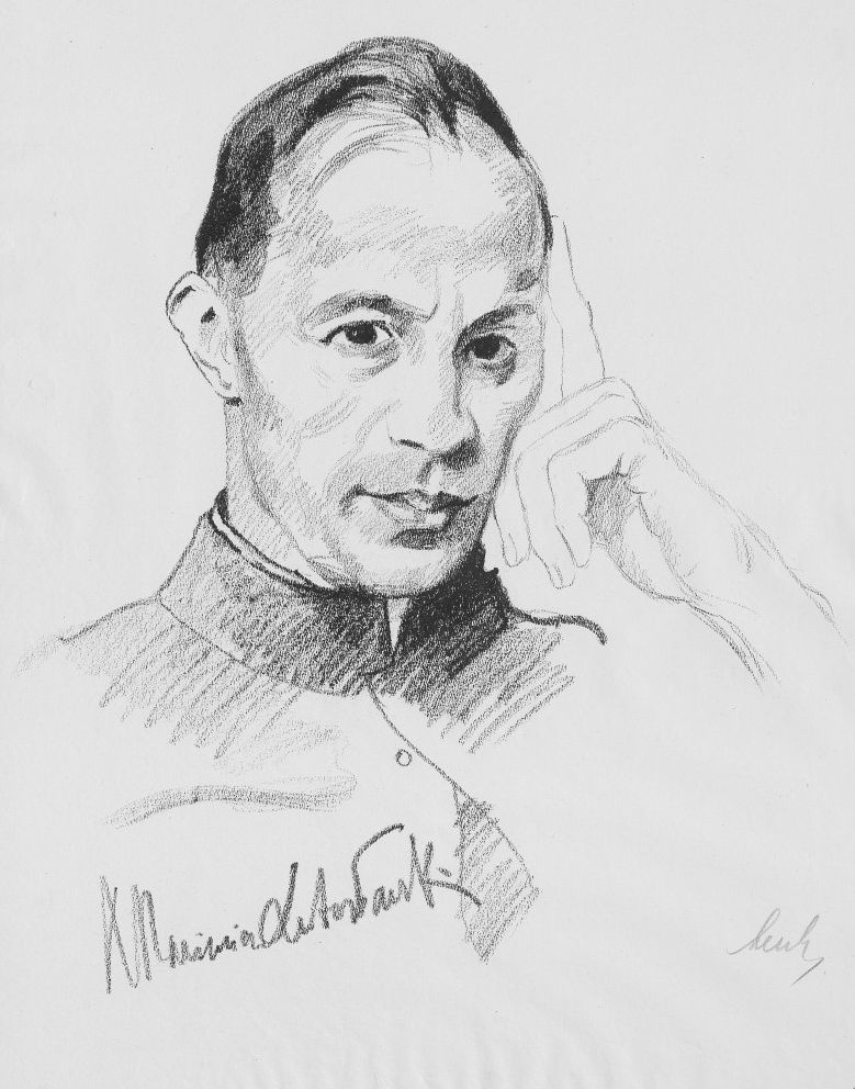 Kazimierz Lutosławski's portrait by S. Lentz.